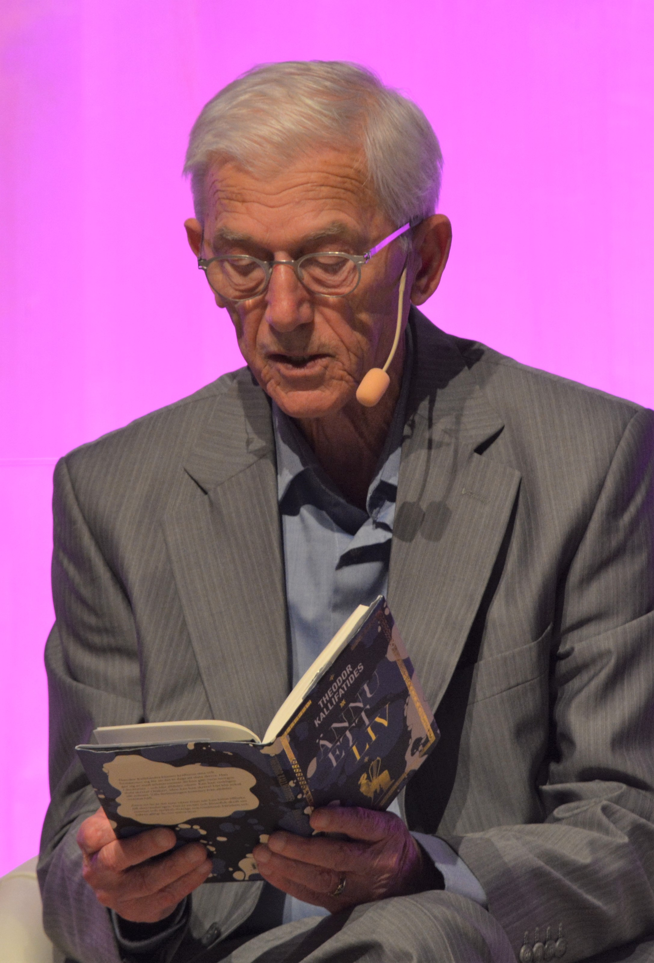 Theodor Kallifatides at the Göteborg Book Fair 2017